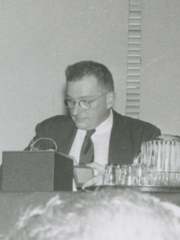 John W. Campbell during World Science Fiction Convention, also known as NyCon II or NEWYORCON, held August 31–September 3 1956